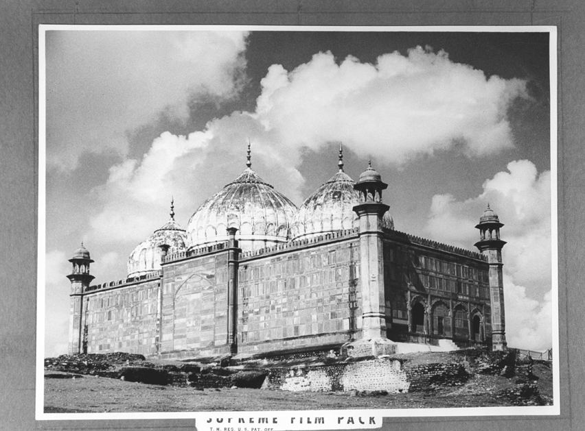 DPD/Aug.49, A04aThe Idgah, Mathura. This has been built on the ruins of Keshav Deo temple destroyed by Aurangazeb. Photo Number:-10799